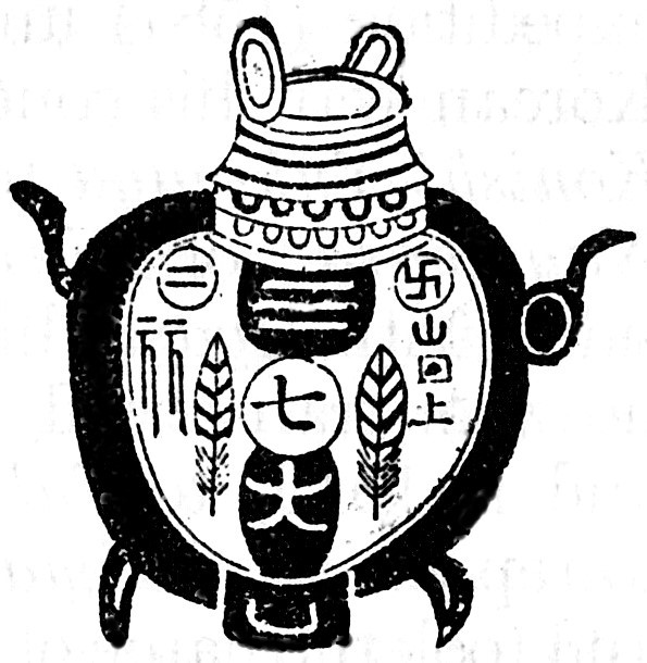 Seal of Mogami Yoshiakira